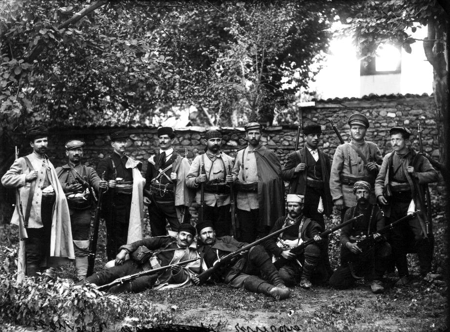 Cheta of IMARO member Krustio Germov - Shakir